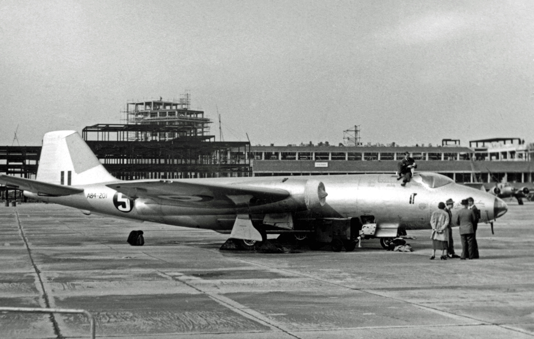 The first GAF English Electric Canberra B.20 of the Royal Australian Air Force at London Heathrow before the start of the New Zealand Air Race